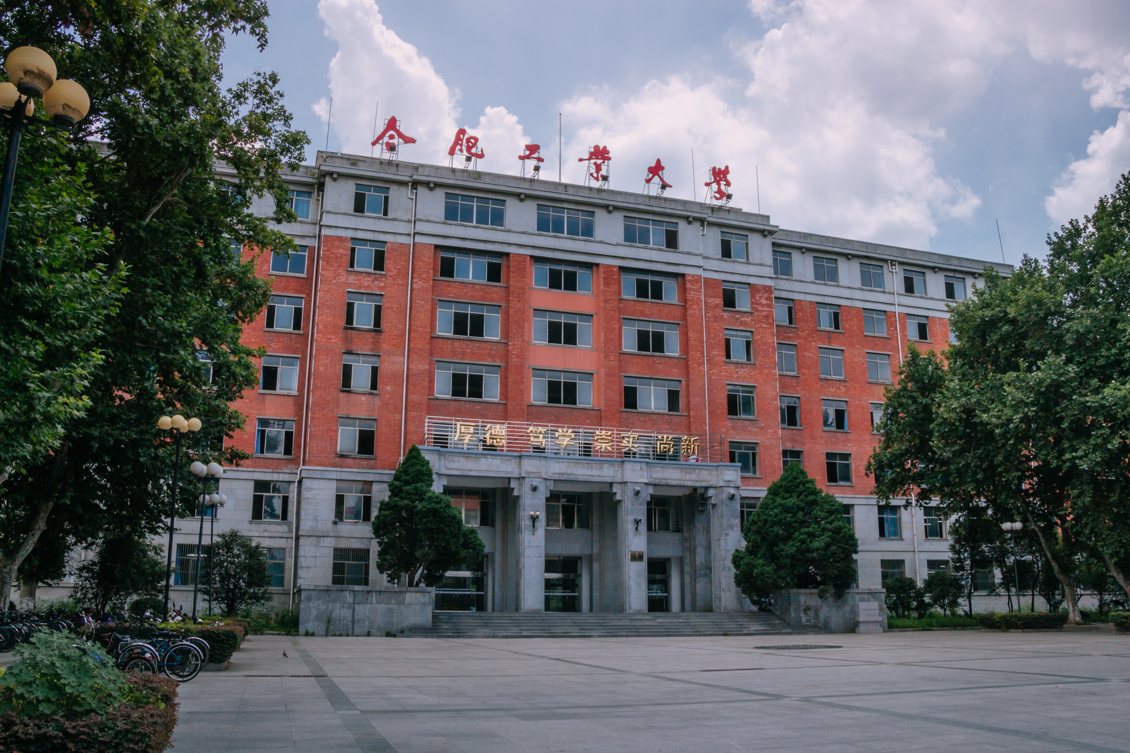 teaching building of HFUT